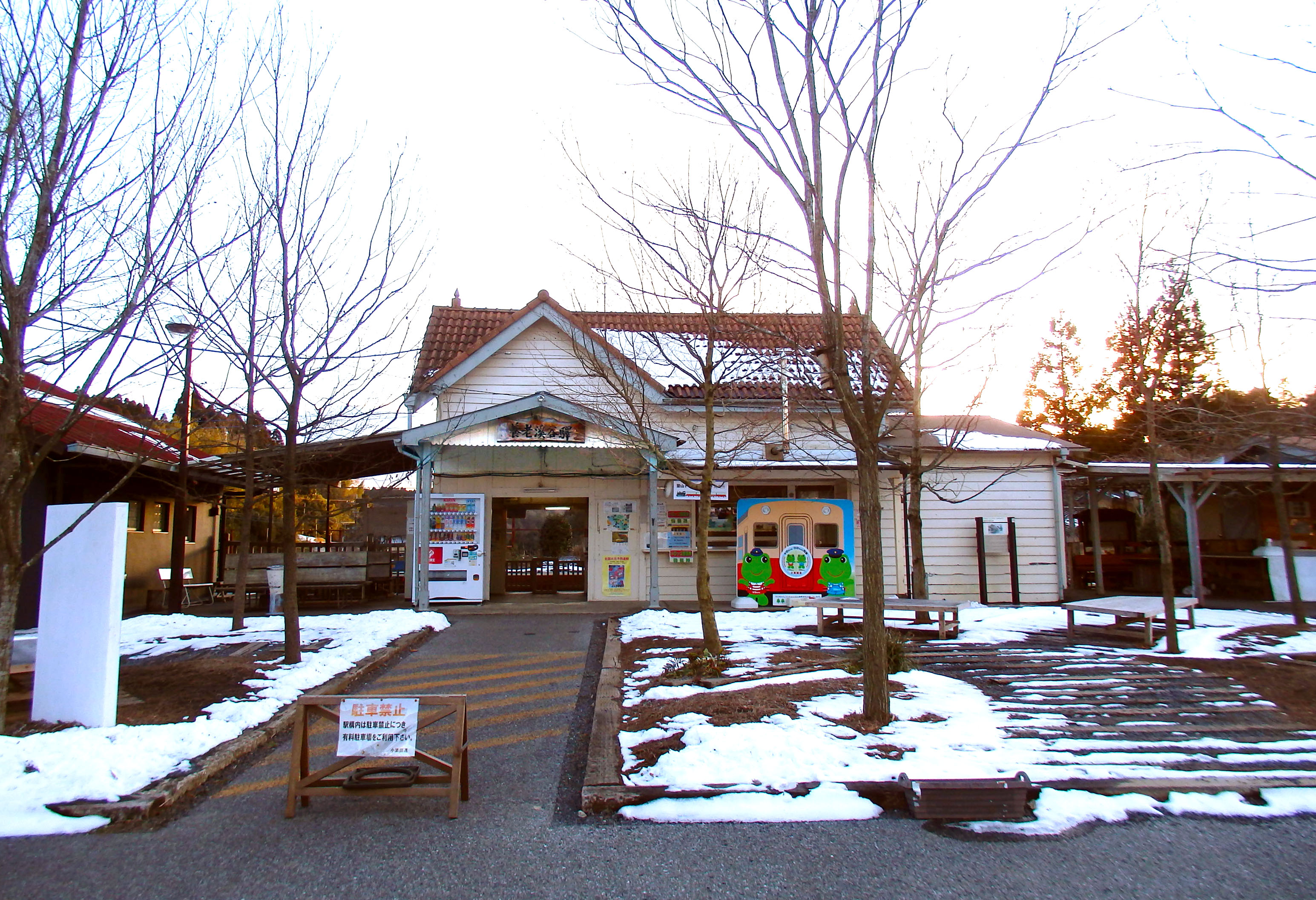 Yorokeikoku Station after "Re-development".